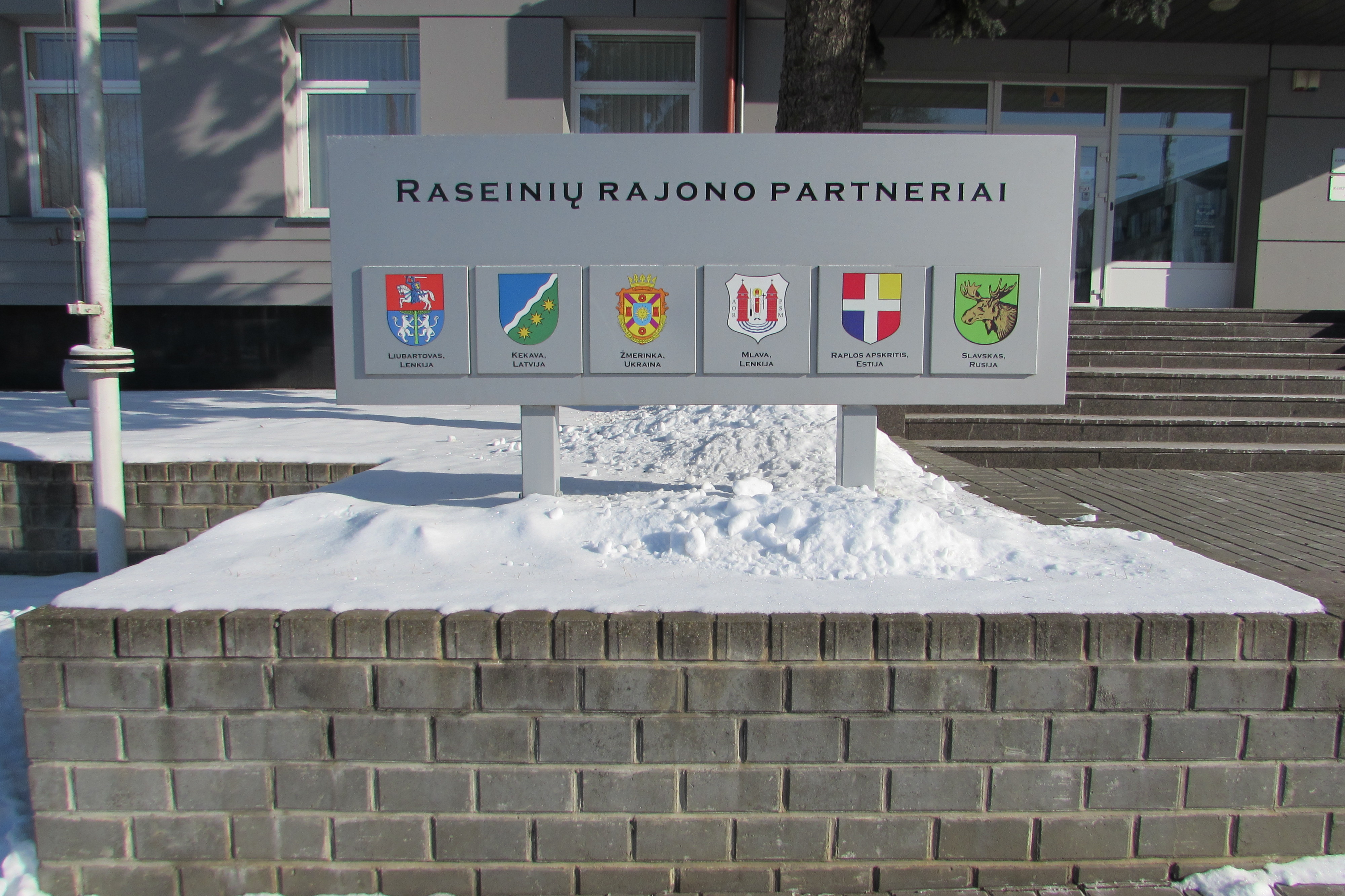 Board naming Raseiniai twin towns in front of municipality's premises